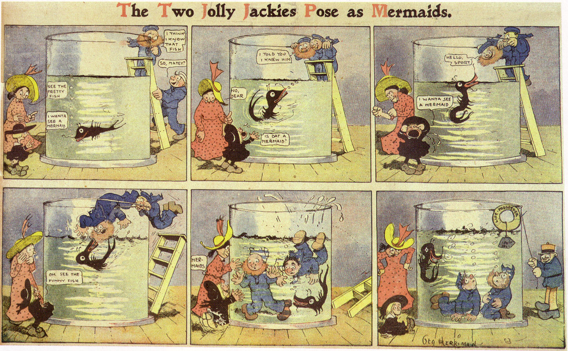 Two Jolly Jackies comic strip for 1903-07-26 by George Herriman